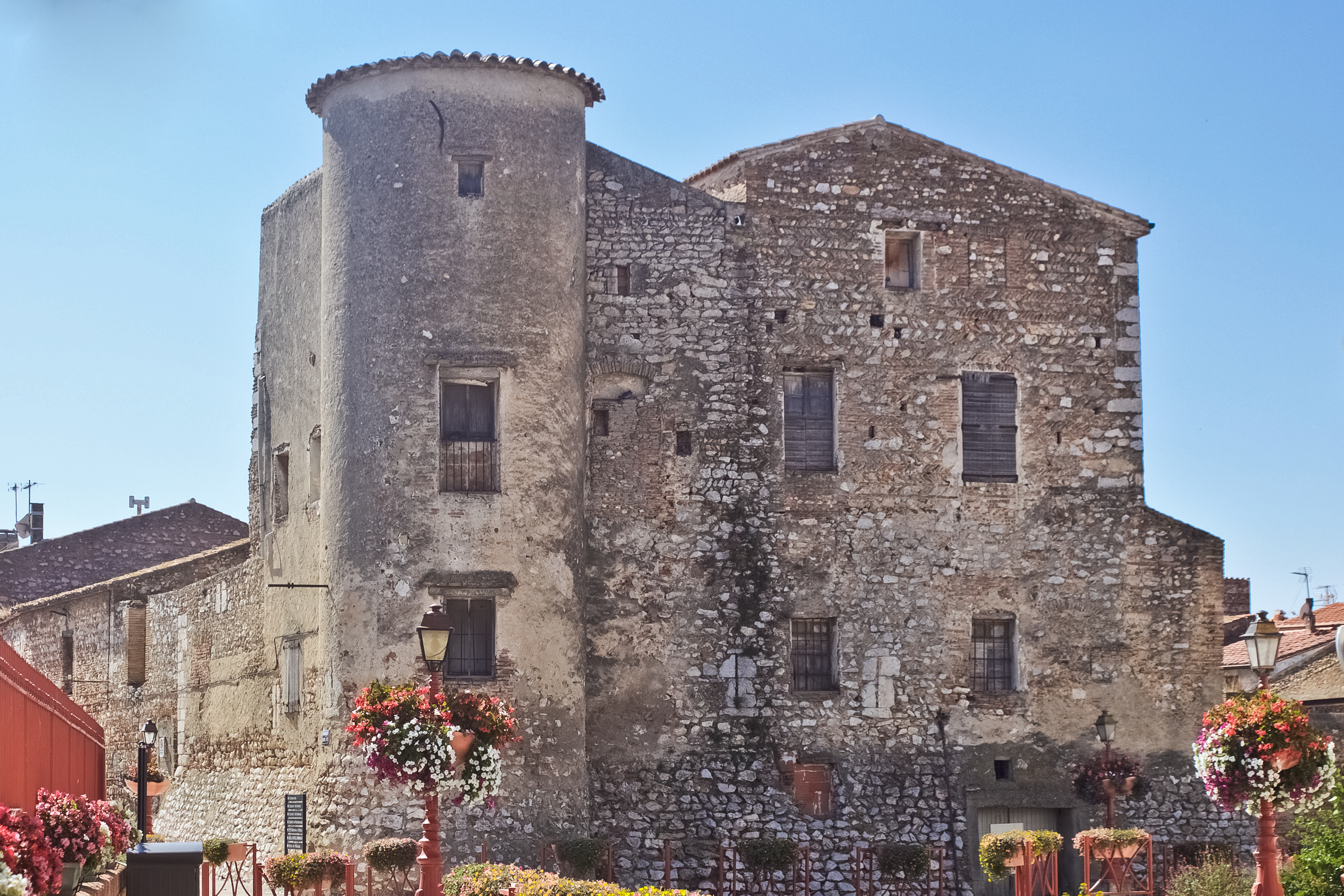 Saint-Hippolyte Castle, north facade, France .